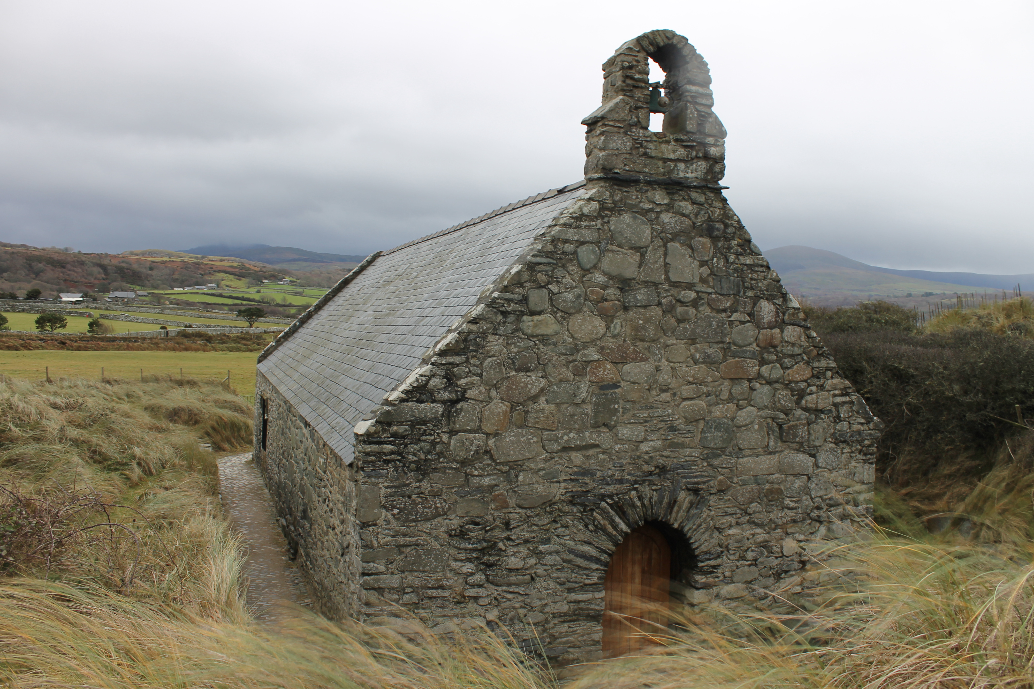 The beach at Llandanwg, near Harlech, Gwynedd, North Wales.